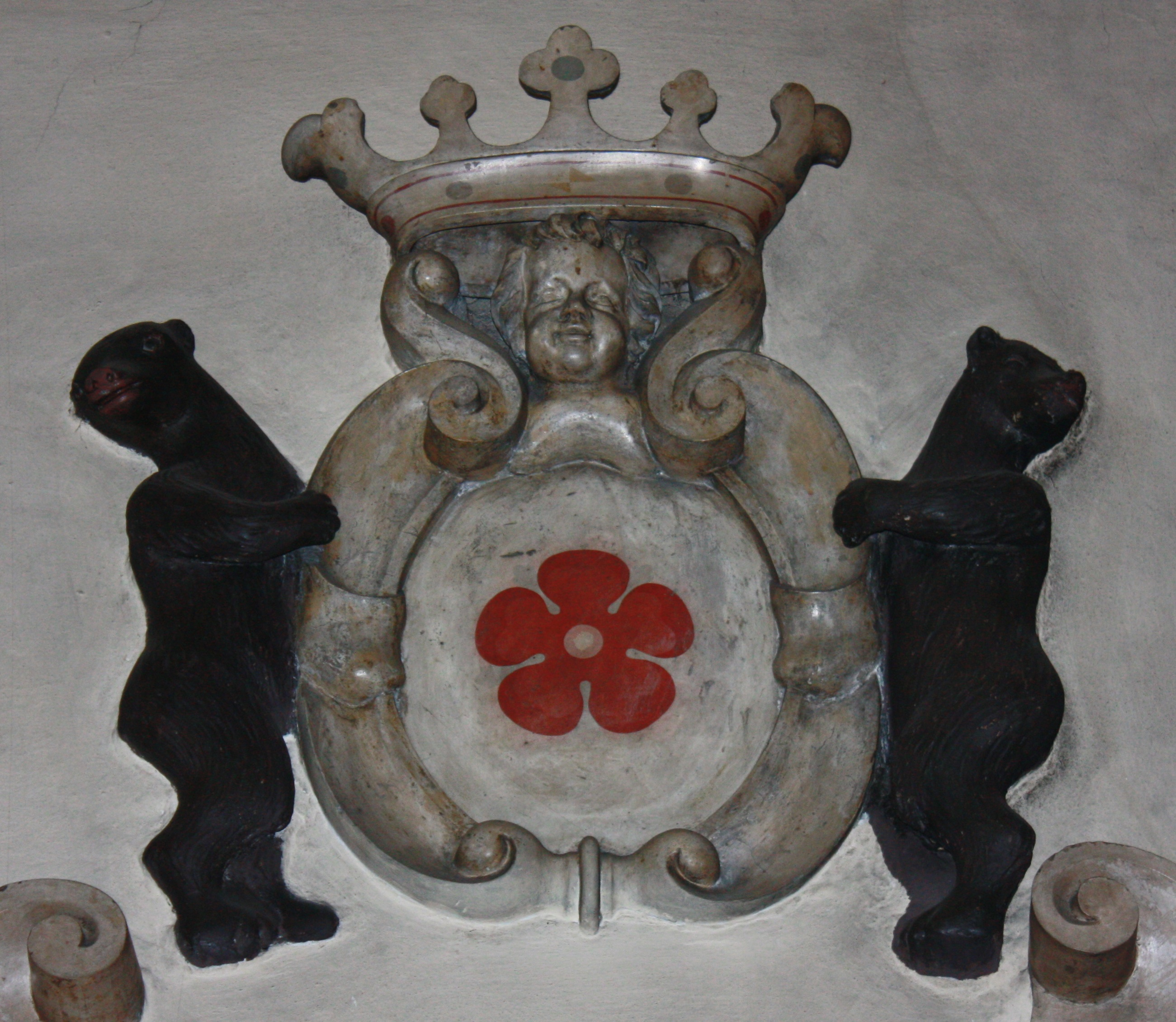 Coat of arms in the Cathedral of Klagenfurt Locality:Domplatz Community:Klagenfurt